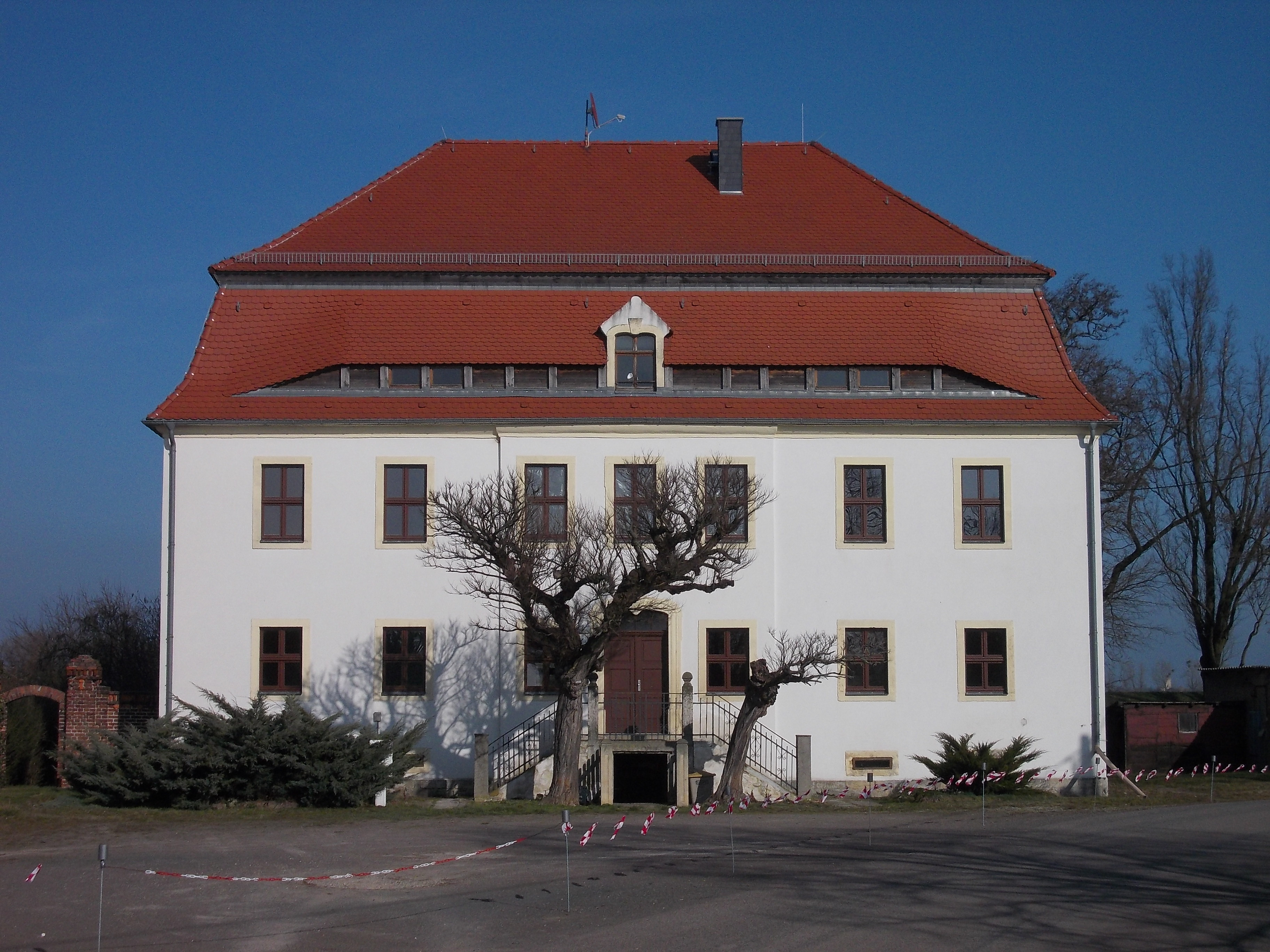 Manor house in Kunzwerda (Torgau, Nordsachsen district, Saxony)